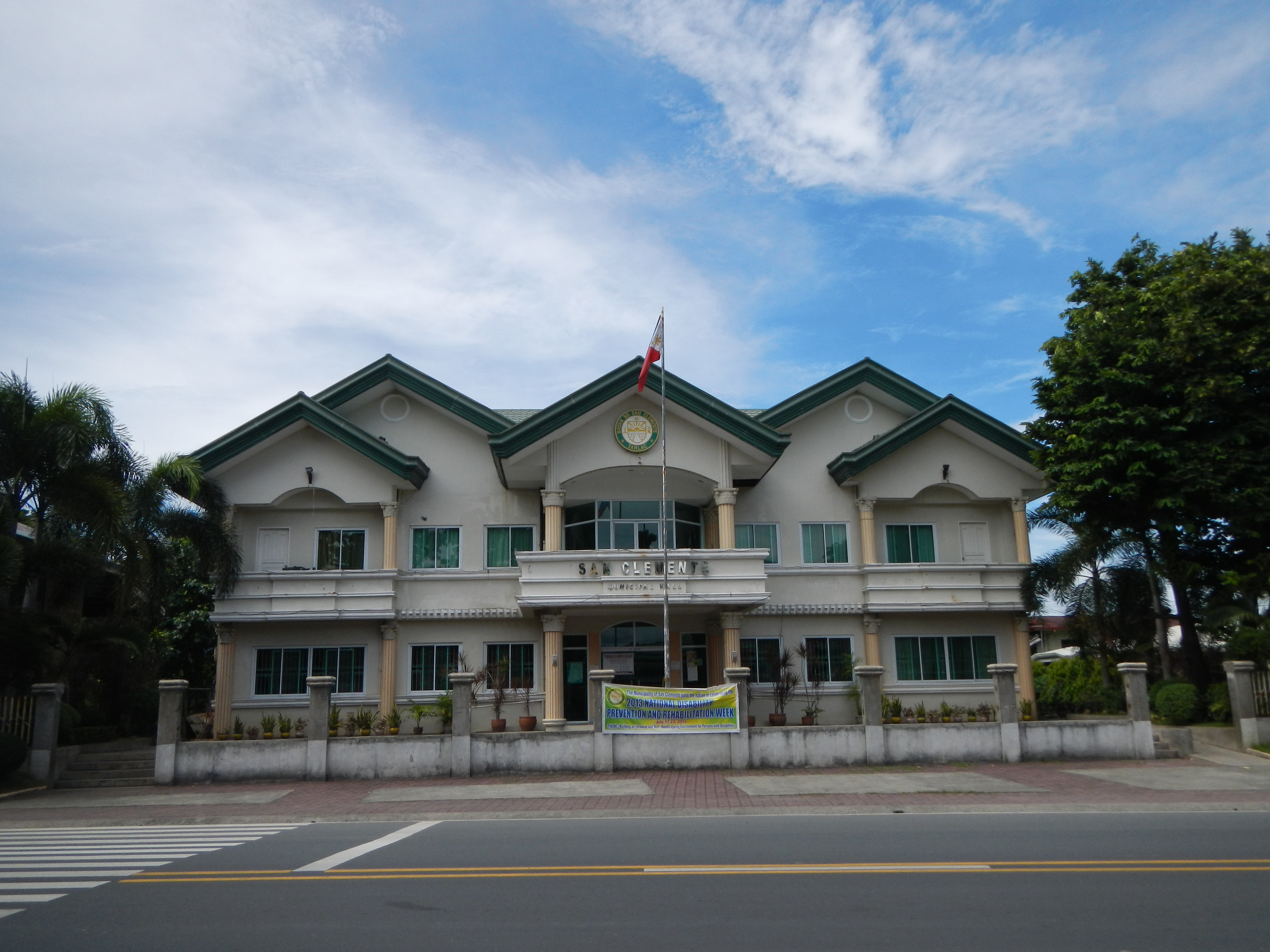 UploadWizard photos of Welcome Archs (Maharlika or Pan-Philippine Highway) of Tarlac Province, San Clemente, Tarlac [1] and San Clemente Bridge (& Pangasinan[2], Province ) at adjoining Boundary Barangay Macarangang of Mangatarem, Pangasinan[3] - San Clemente Town Hall, Town Proper, Centro, Highway, Victory Liner Bus stop, Rural Health Unit, Town and Plaza, Park, Church -- San Clemente, Tarlac [4]